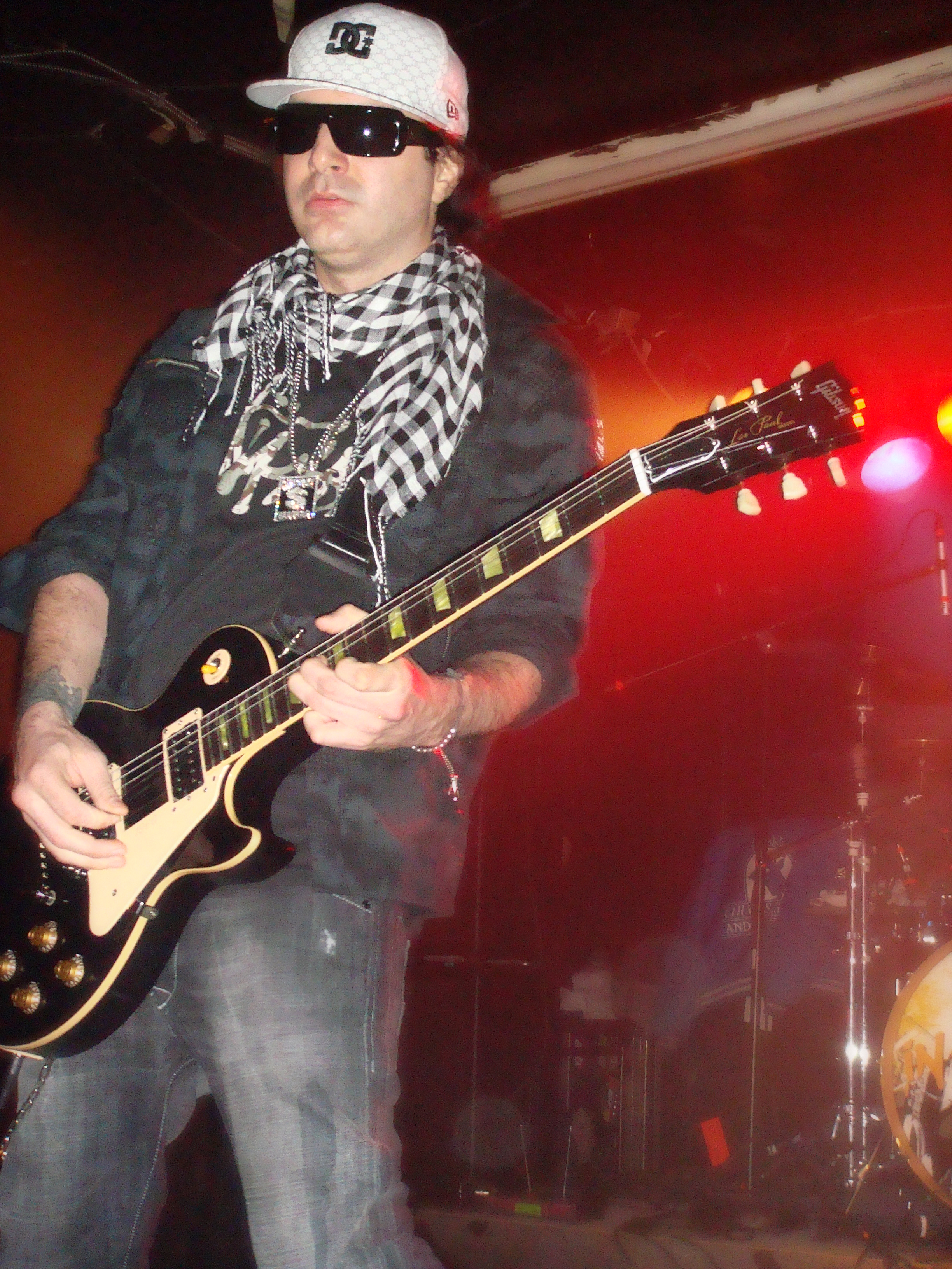 Kevin Rudolf, American singer-songwriter, and record producer